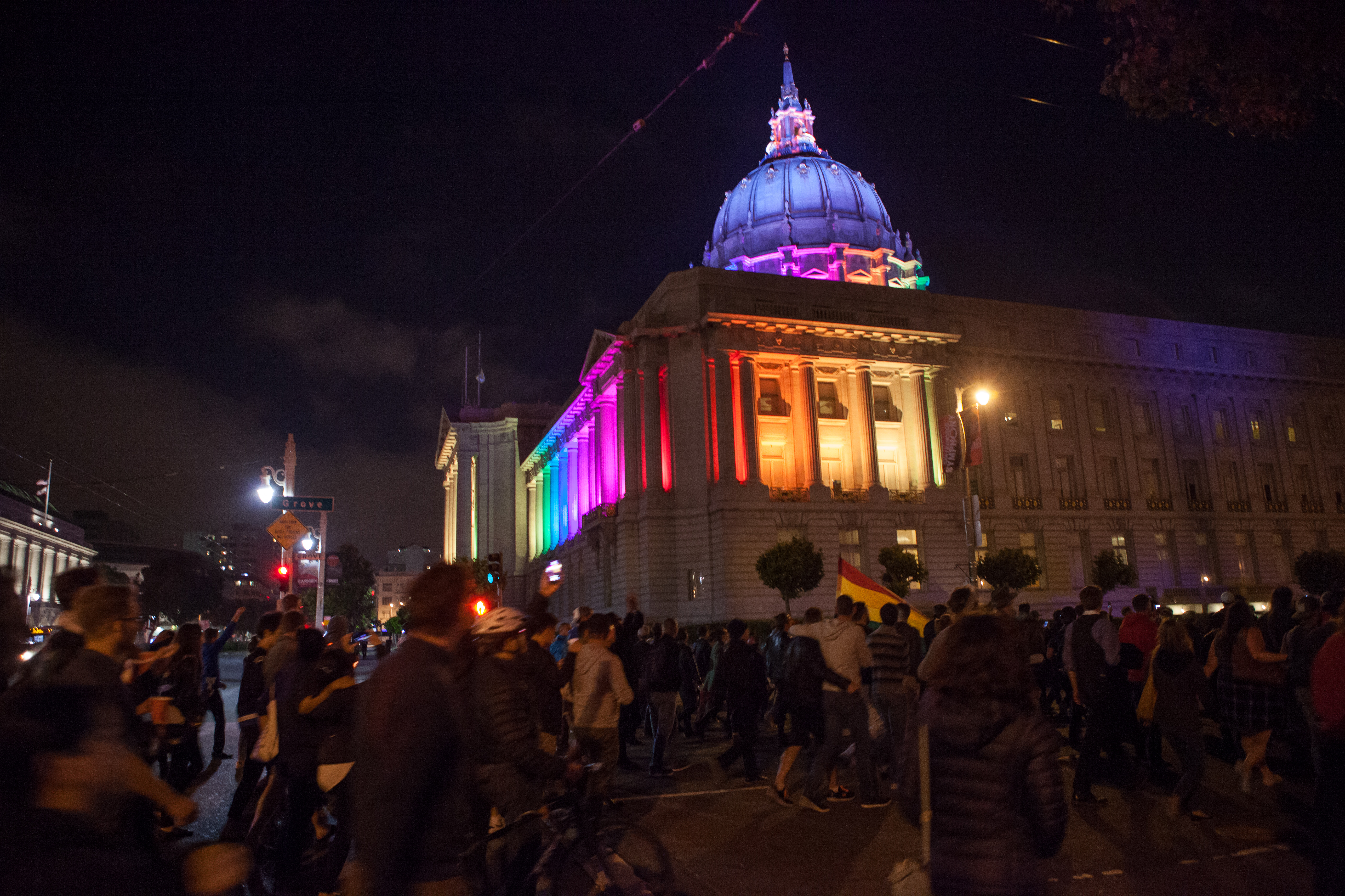 Marchers walk by San Francisco City Hall, lit in the rainbow colors of the Pride flag, during a vigil for the victims of the 2016 Orlando nightclub shooting.